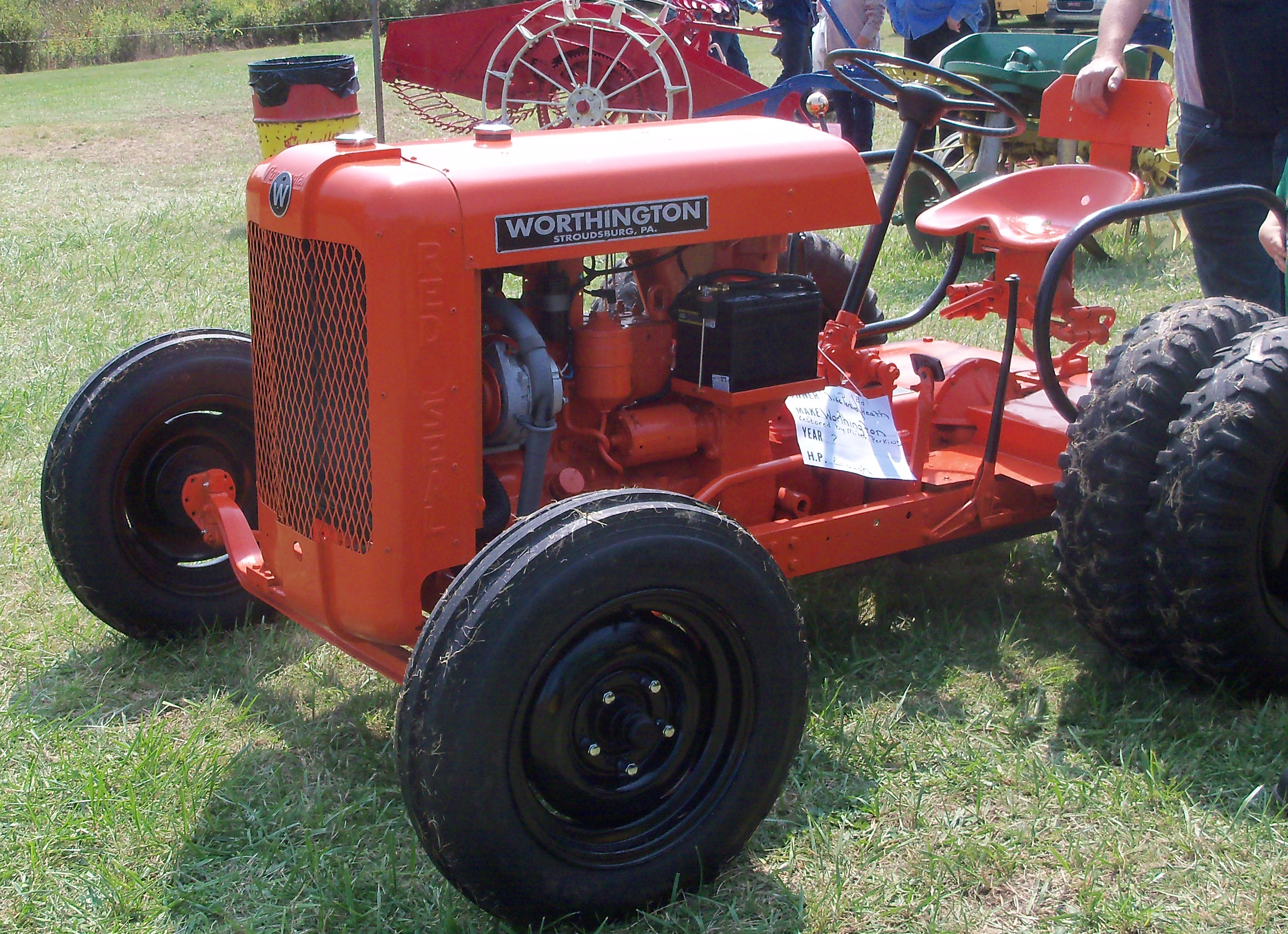 Worthington Mower Company tractor with Continental Motors Company engine, manufactured in Stroudsburg Pennsylvania. seen at the Stumptown Steam Threshers Reunion & Show